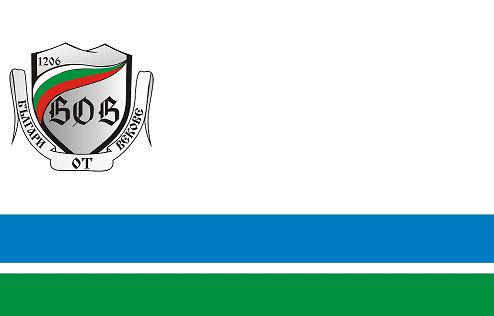 The flag of BOV